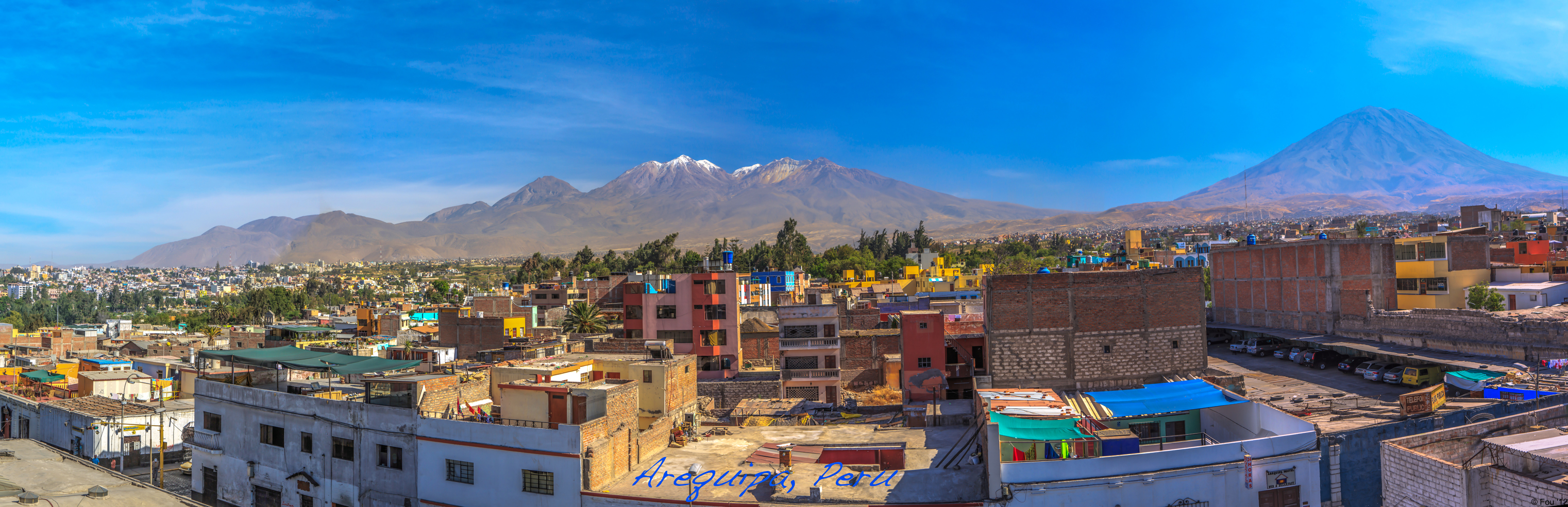 City/Volcanoes Pano from our Hotel in Arequipa